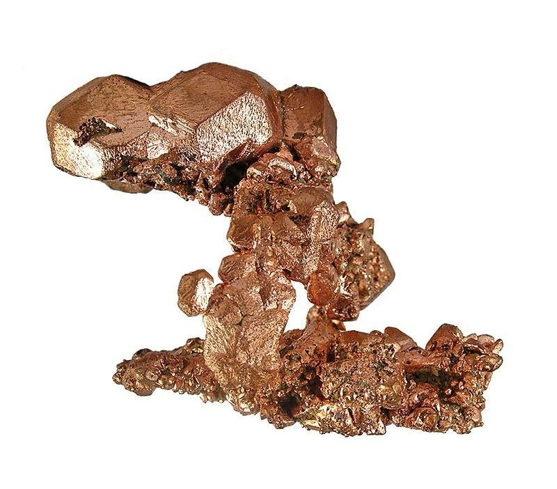 Copper Locality: New Cornelia Mine (Ajo Mine), Ajo, Little Ajo Mts, Ajo District, Pima County, Arizona, USA (Locality at ) This very aesthetic floater is superbly crystallized with modified dodecahedrons, to 2.0 cm across, just a really elegant example of Ajo copper. It was once in the collection of the late Gerald Herfurth and later in Les Presmyk’s possession. I particularly like the free form way the specimen sits up. 6.4 x 4.7 x 4.6 cm